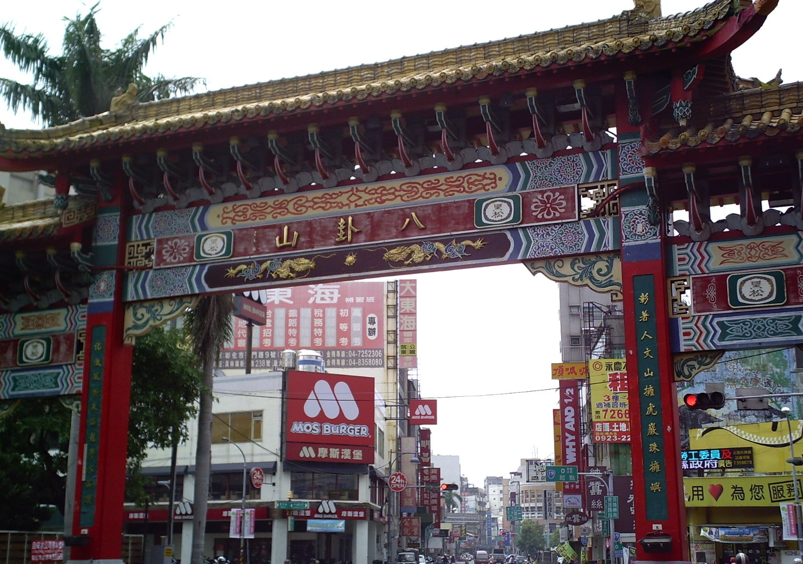 the starting point of Taiwan Provincial Highway 19. On Taiwan Provincial Highway 1, in Changhua City.